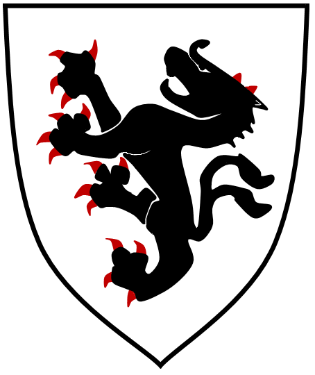 Coat of carinthian House of Spanheim- reconstruction. Compare with the seal of Ulrich III. Spanheim. For colors description look at Grboslovje; the panther is black and the background is silver or white.